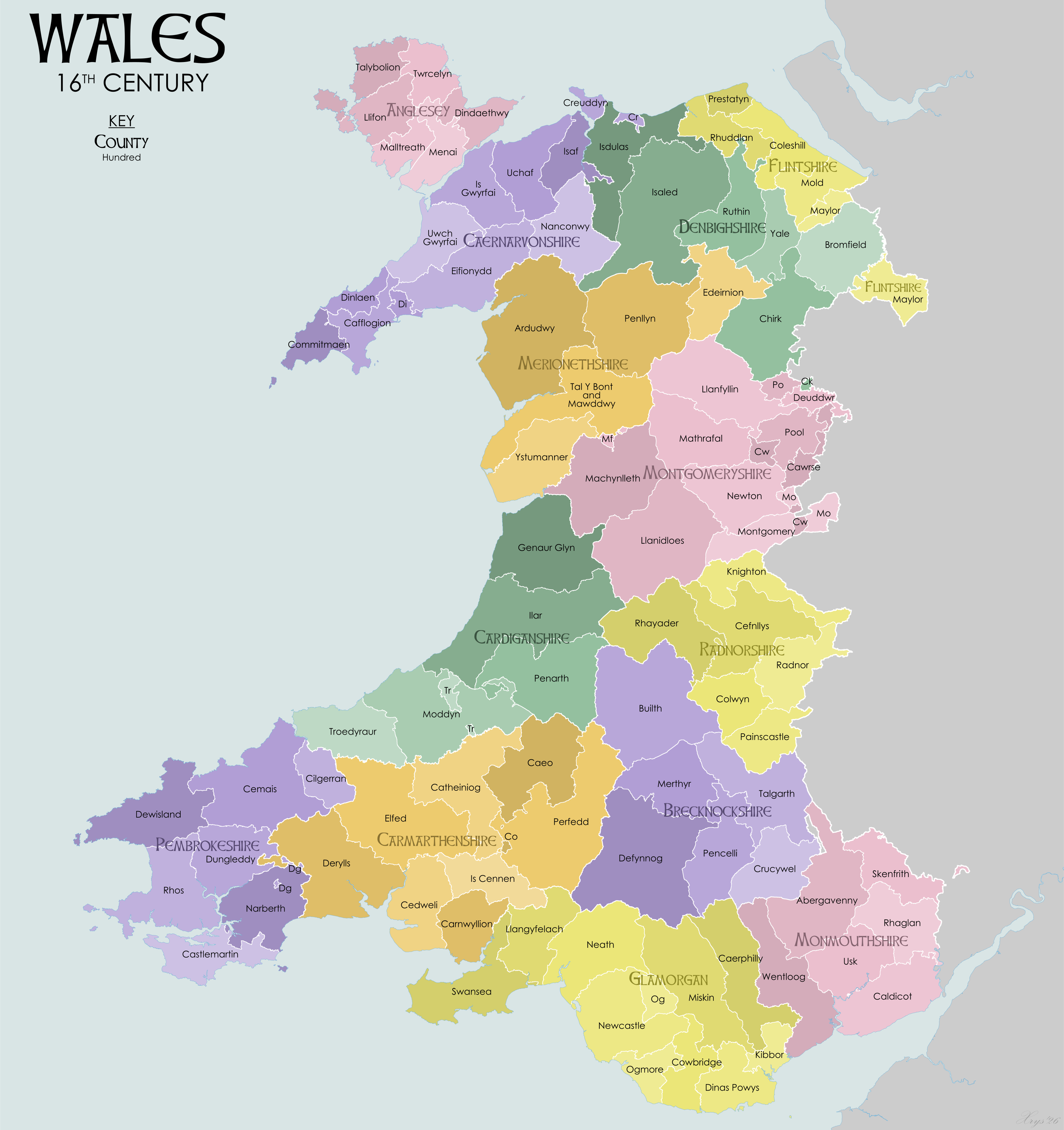 Map of Wales in the 16th Century following the Laws In Wales Acts 1535 and 1542. Source data: Kain R.J.P., and Oliver, R.R. (2001) "Historic parishes of England and Wales". Vision Of Britain Website (hundred names and constituent parishes). South Wales and the Border in the Fourteenth Century (1933) W.M.Rees. Max Lieberman, The March of Wales (1067-1300) (from